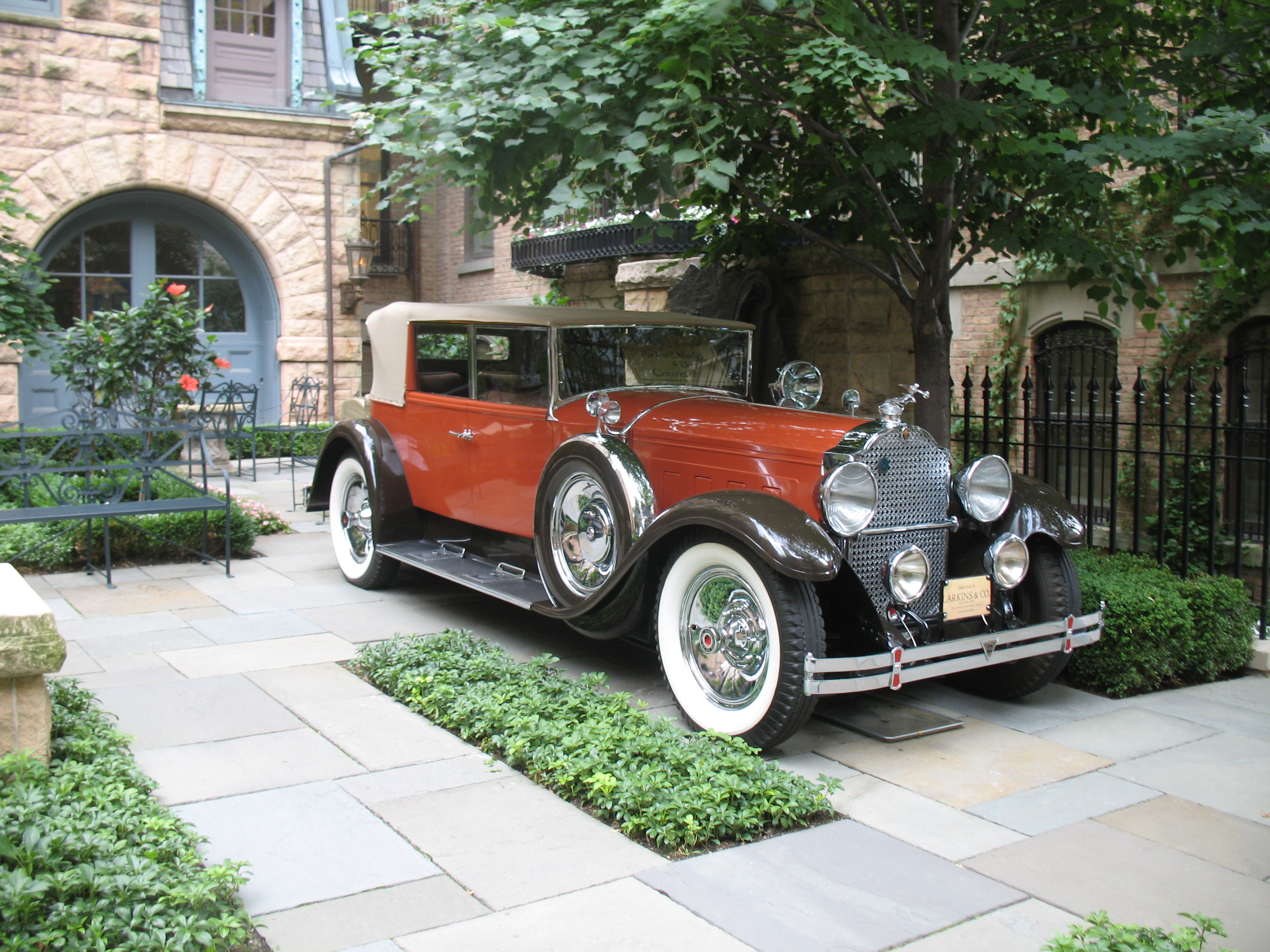 1929 Packard 640 Custom Eight 4 door convertible sedan by Larkins